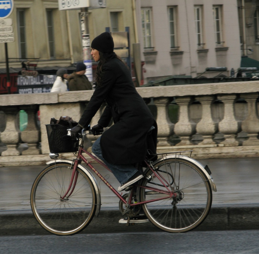 A woman on a bike in Paris.